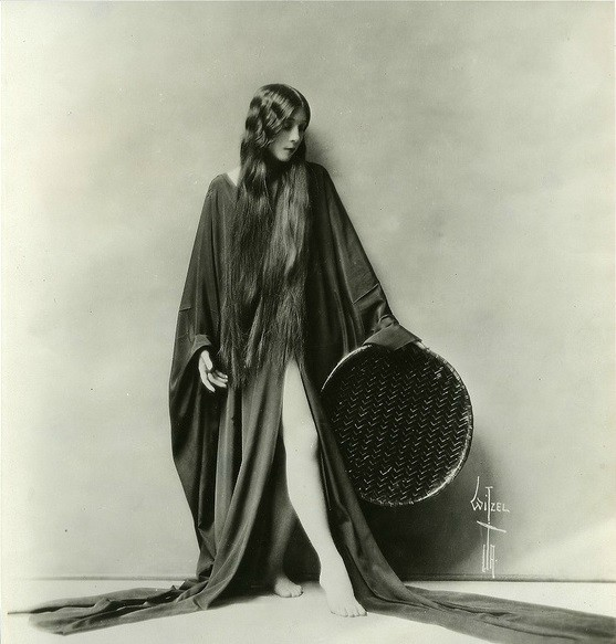 Portriat of American dancer, model, and actress Olive Ann Alcorn (1900–1975) by Americna photographer Albert Witzel (1879–1929).